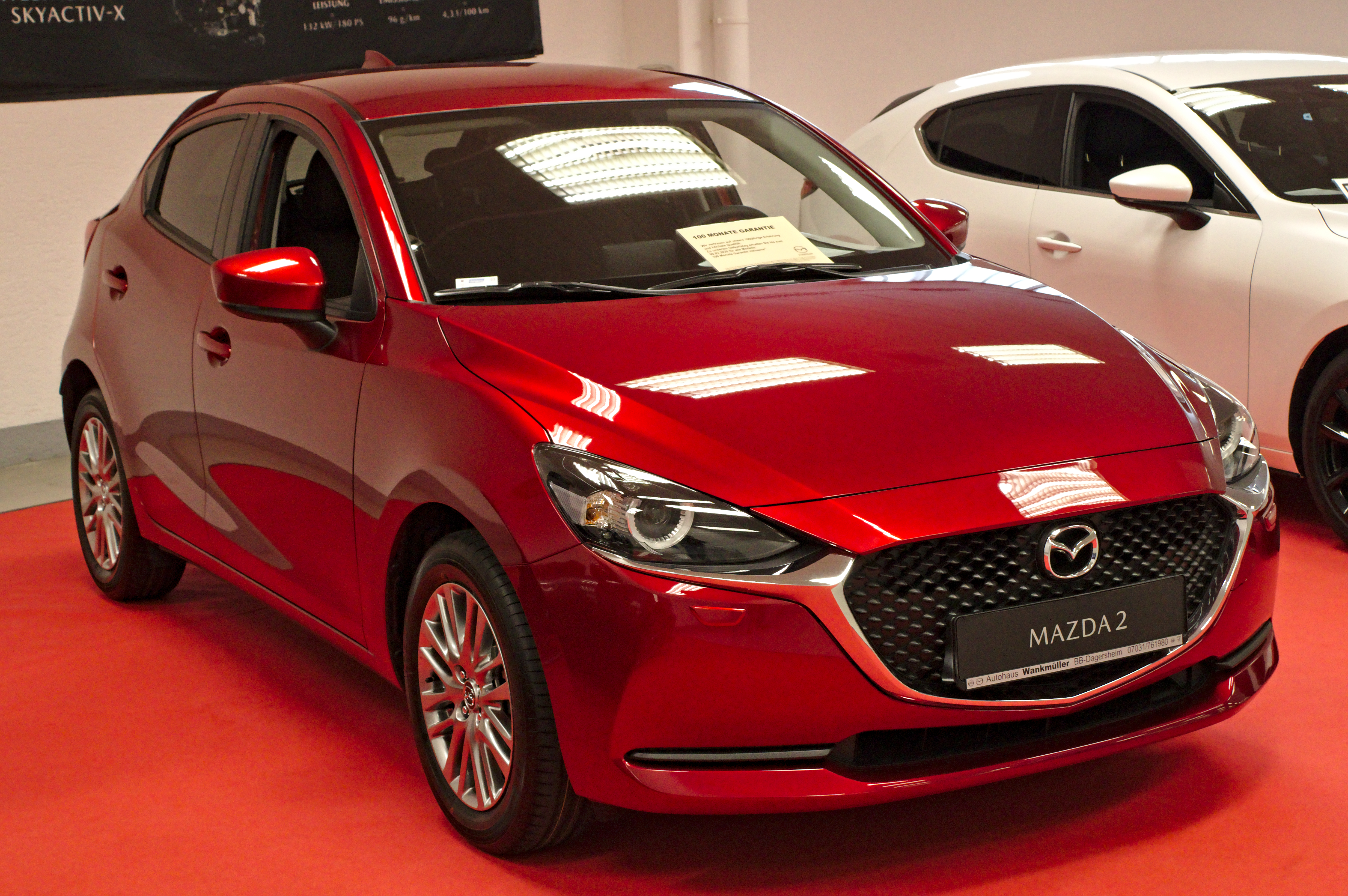 Mazda2_(DJ)_Sindelfingen_2020